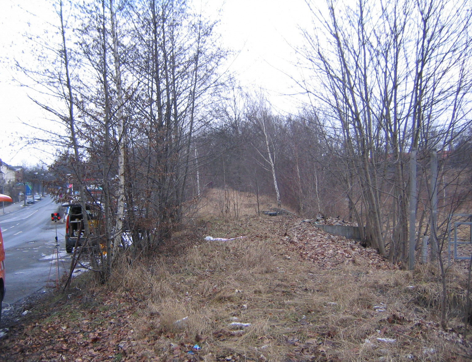 Part of the former railway Bayreuth - Hollfeld and Bayreuth - Thurnau; near Nuernberger Strasse in Bayreuth